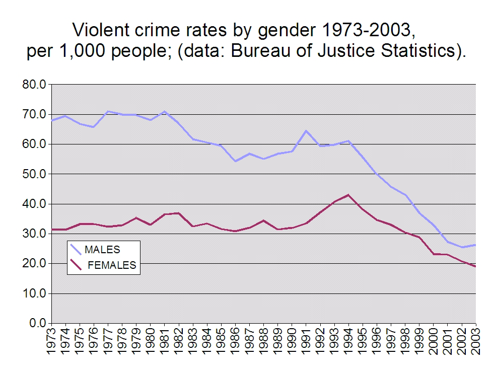 This is a chart showing trends in violent crime rates by gender in the U.S., from 1973 to 2003.